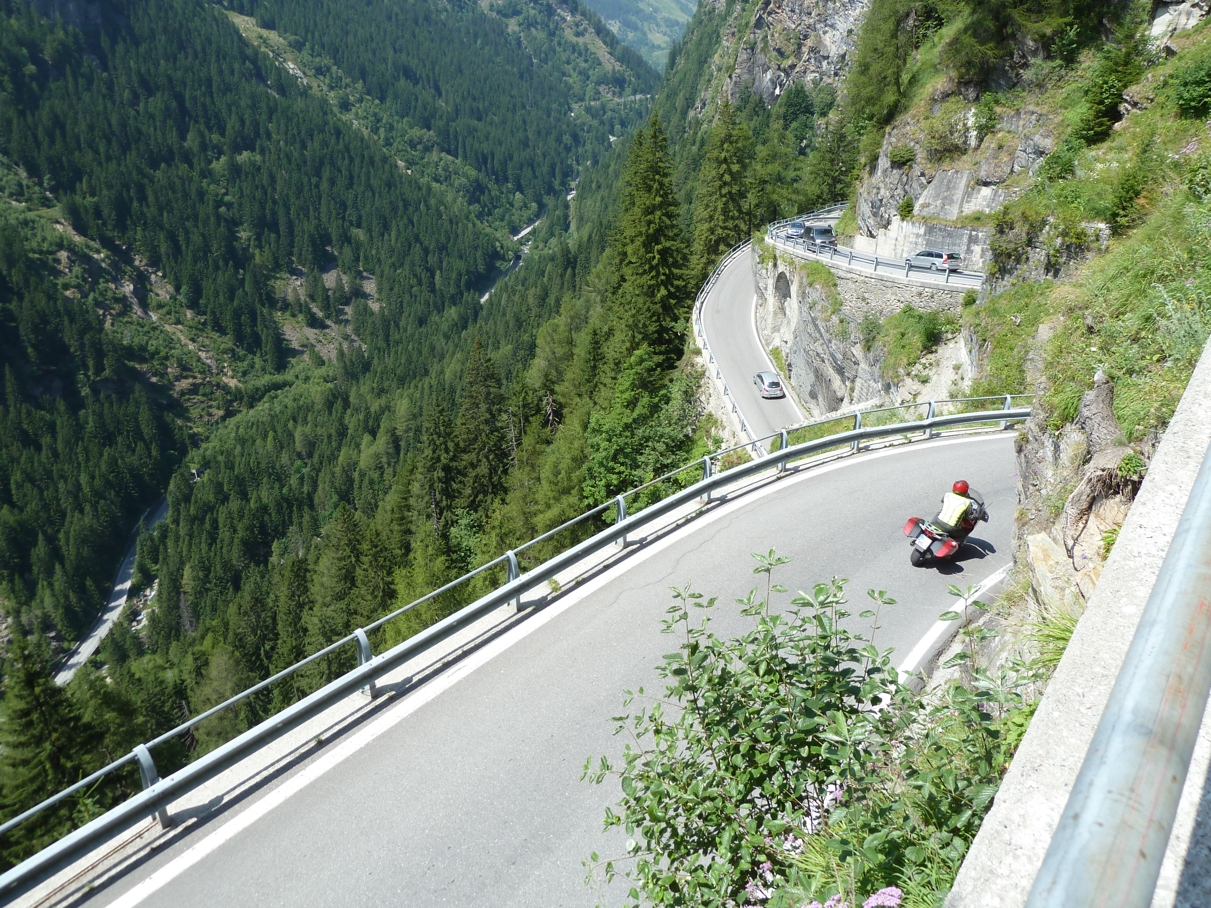 Highway SS36 between Pianazzo and Campodolcino, facing north. Provincia di Sondrio, Lombardia.